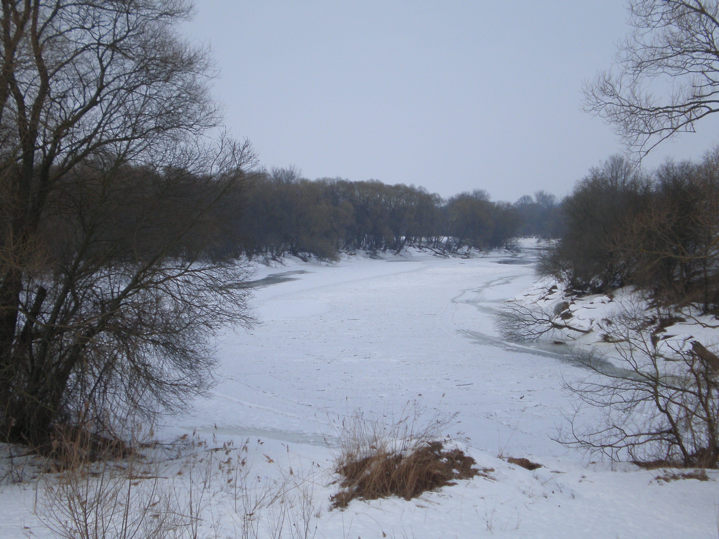 Nevėžis River near Kėdainiai city in winter